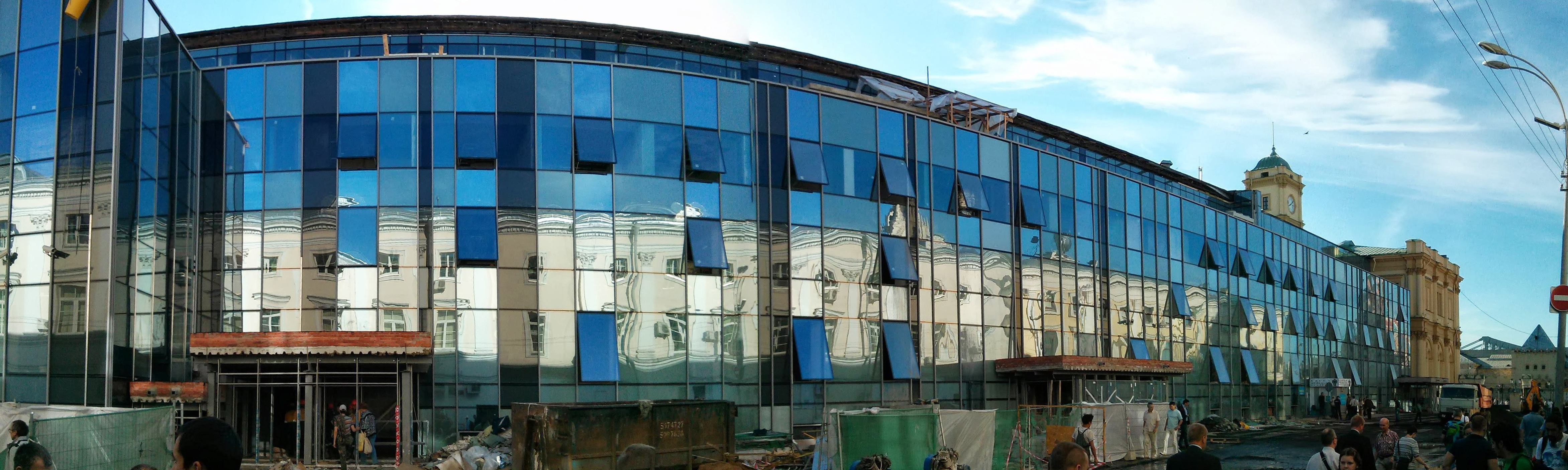 Reconstruction of Leningradsky railway station as of 19th of July 2013